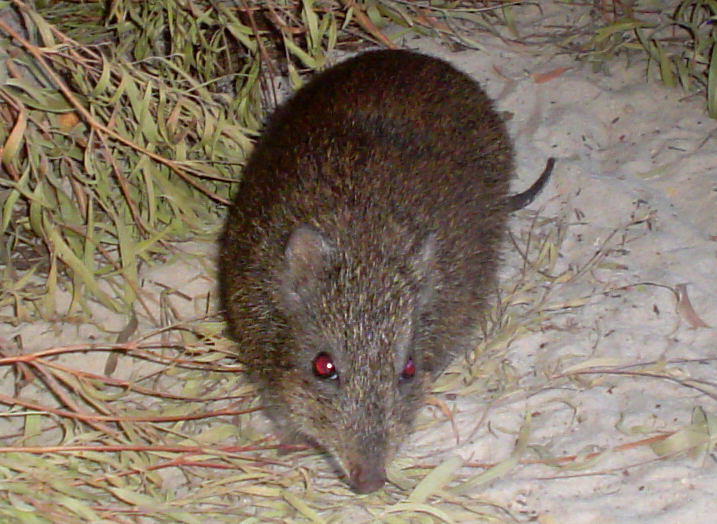 Copyright Michael Wakefield.